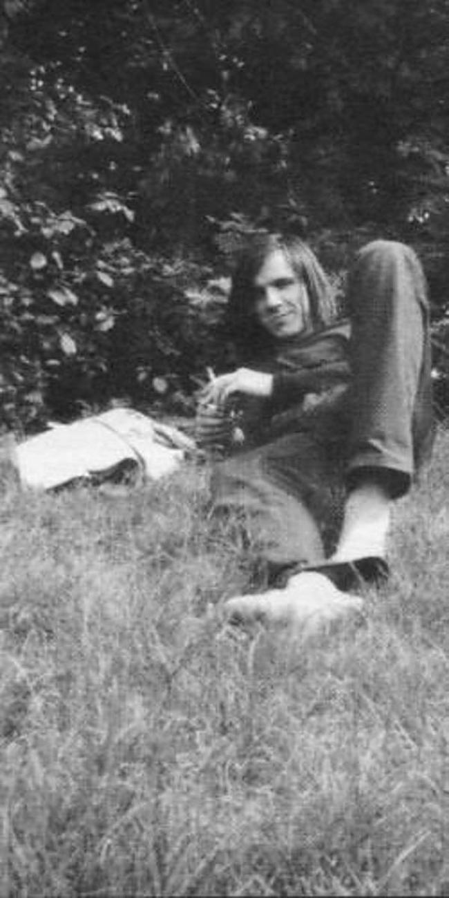 Pekka Streng, a Finnish musician and songwriter